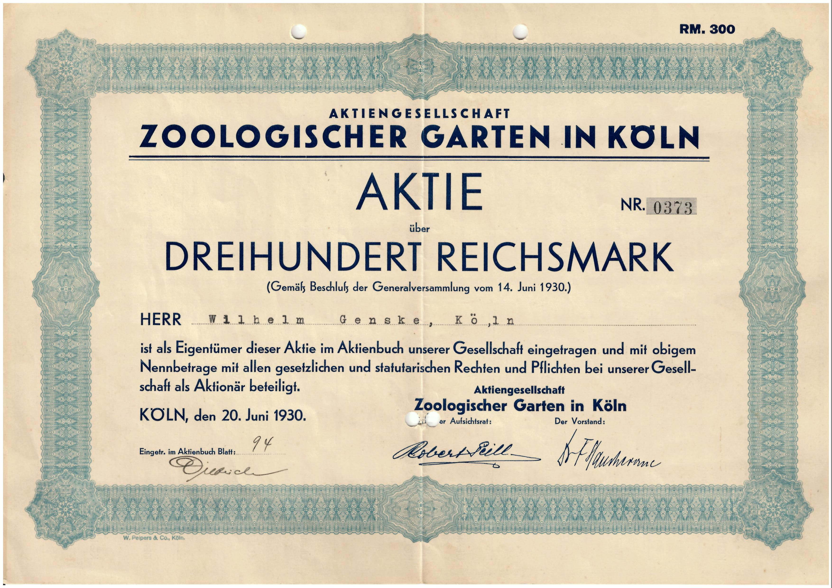 Share of the Zoologische Garten in Cologne, issued 20. June 1930